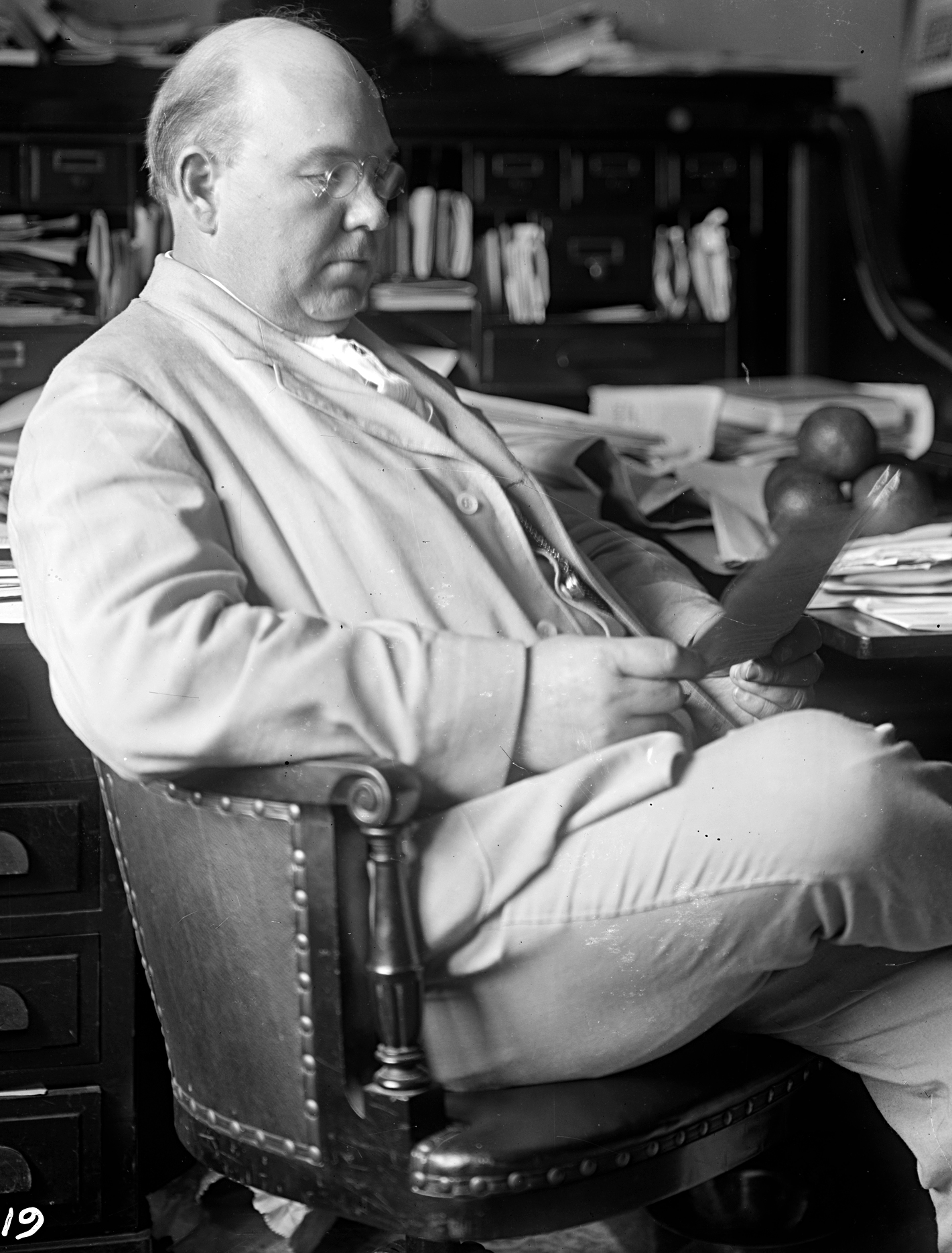 James C. Needham, US Representative from California